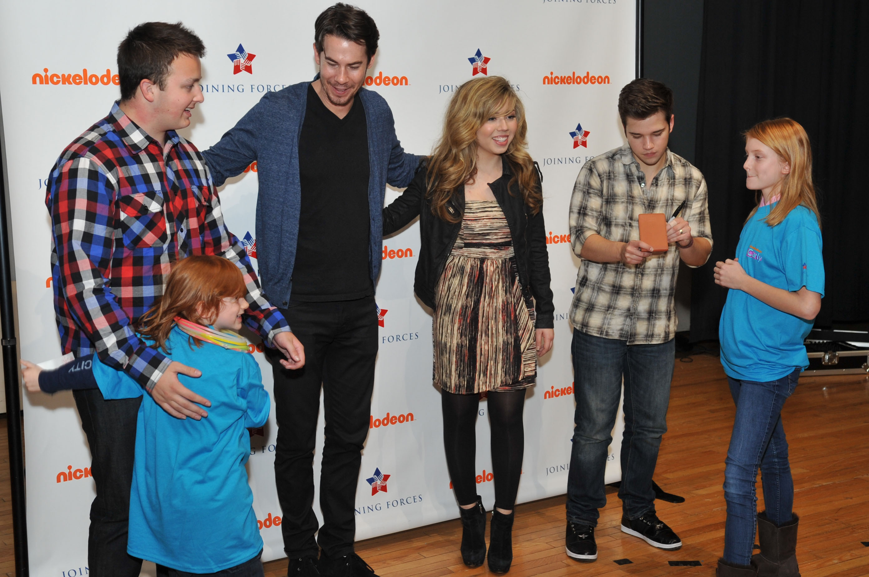 Noah Munck, Jerry Trainor, Jennette McCurdy and Nathan Kress at the Joint Base McGuire-Dix-Lakehurst